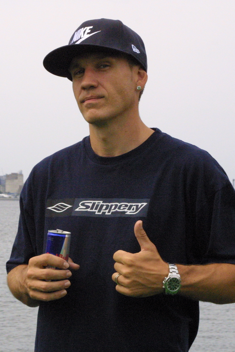 Vaclav Zacek Iceman